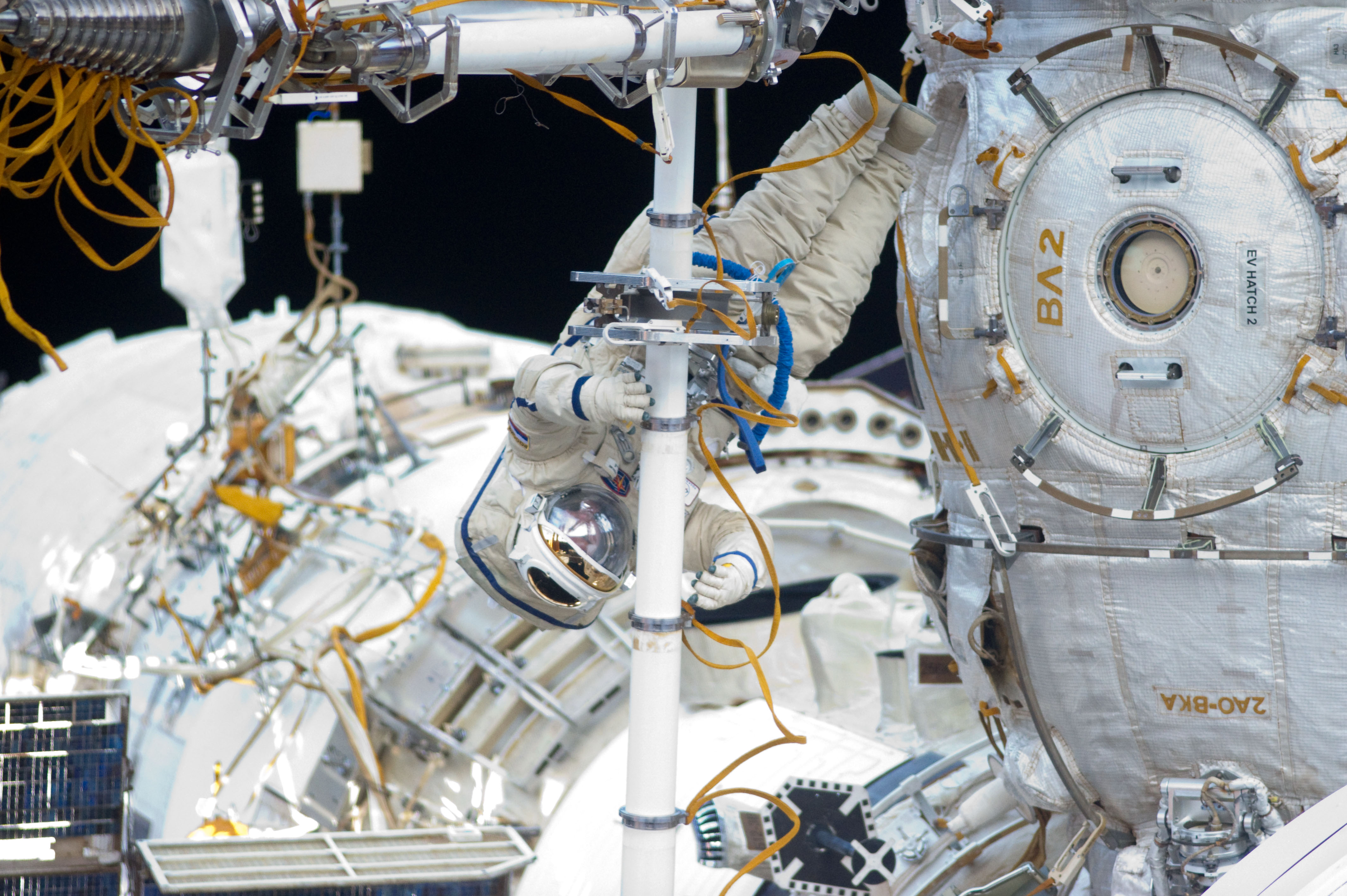 Russian cosmonaut Yuri Malenchenko, Expedition 32 flight engineer, participates in a session of extravehicular activity (EVA) to continue outfitting the International Space Station. During the five-hour, 51-minute spacewalk, Malenchenko and Russian cosmonaut Gennady Padalka (out of frame), commander, moved the Strela-2 cargo boom from the Pirs docking compartment to the Zarya module to prepare Pirs for its eventual replacement with a new Russian multipurpose laboratory module. The two spacewalking cosmonauts also installed micrometeoroid debris shields on the exterior of the Zvezda service module and deployed a small science satellite.